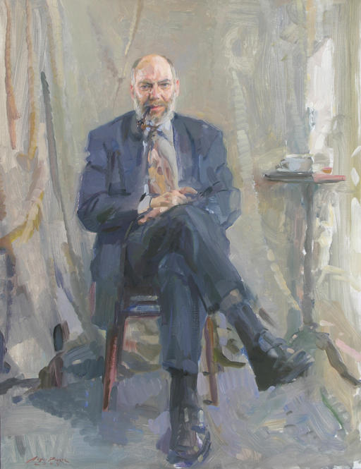 2007 First Honor Award. PSOA